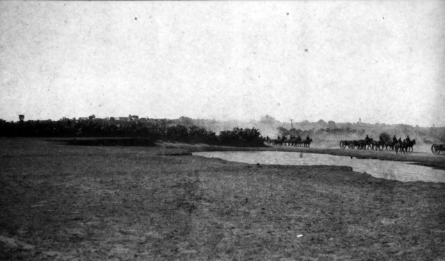 Photo of transport outside Gaza c1917 Other information Copyright expired